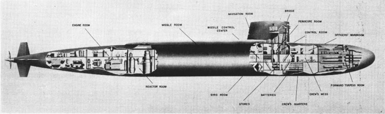 Cutaway of the USS George Washington SSRN698. The submarine carryed Polaris missiles.